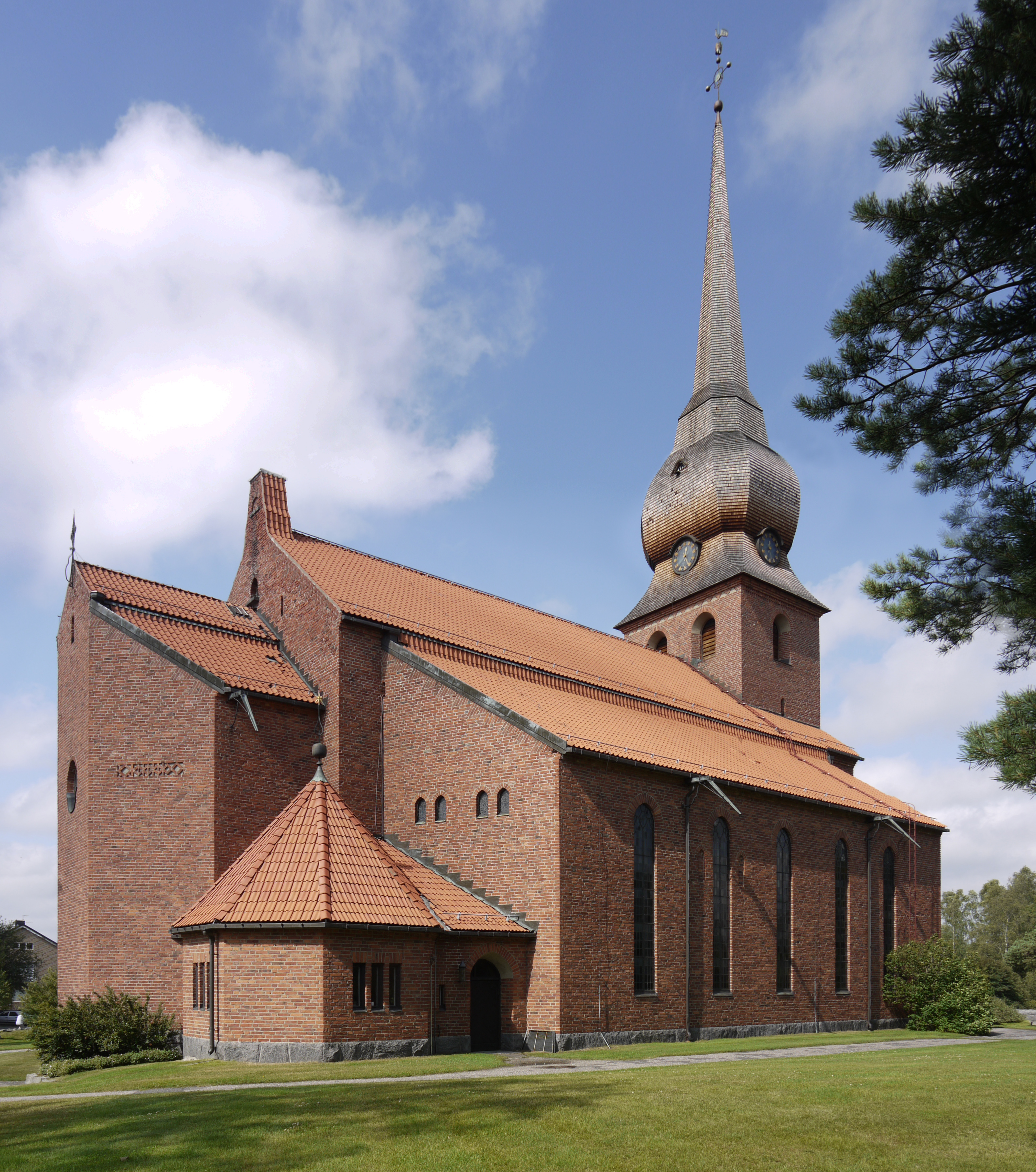 Bureå church, Diocese of Luleå, Skellefteå kommun, Bureå, Sweden. Church view.